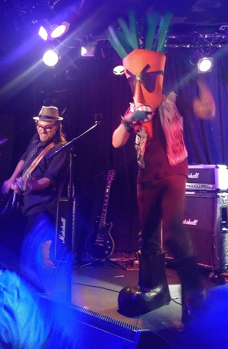 The Radioactive Chicken Heads performing at the Viper Room in 2018.